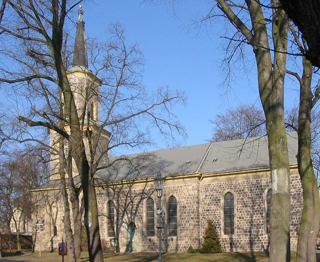 Church St. Andreas (oldest parts from 12th century) in Teltow. The town Teltow belongs to the district Potsdam-Mittelmark in the state Brandenburg, Germany, and borders to the south of Berlin.